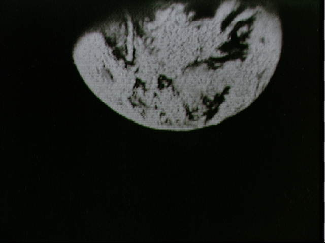 View of the earth that was transmitted back from space during the live television transmission from the Apollo 8 spacecraft on the third day of its journey toward the moon. This view is looking through a spacecraft window. At the time of this TV transmission, Apollo 8 was traveling on its translunar course at about 3,254 ft per second, and was some 176,533 miles from earth.